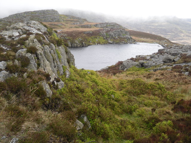 Llyn Twr Glas I doubt if this photo of the lake would be instantly recognisable even to those familiar with the Rhinogs. It shows one corner of the lake only, thus not revealing the distinctive shape of the lake as a whole. But it does show the typical Rhinogs terrain with rocks, heather and bilberry plants (the bilberries were not ripe at the time).